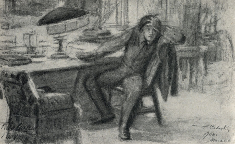 Anton Chekhov's The Black Monk, illustrated by G.K. Savitsky